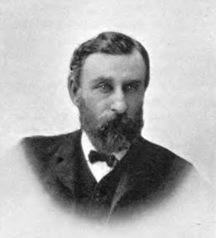 steamboat captain Joseph Spratt sometime before 1895